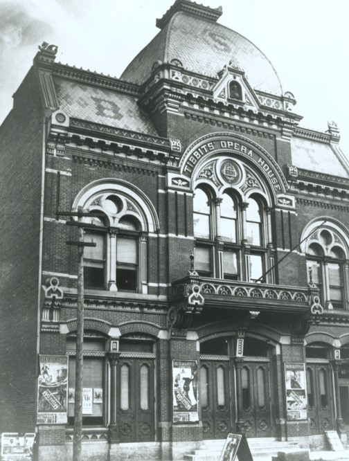 Tibbits Opera House original facade architecture.